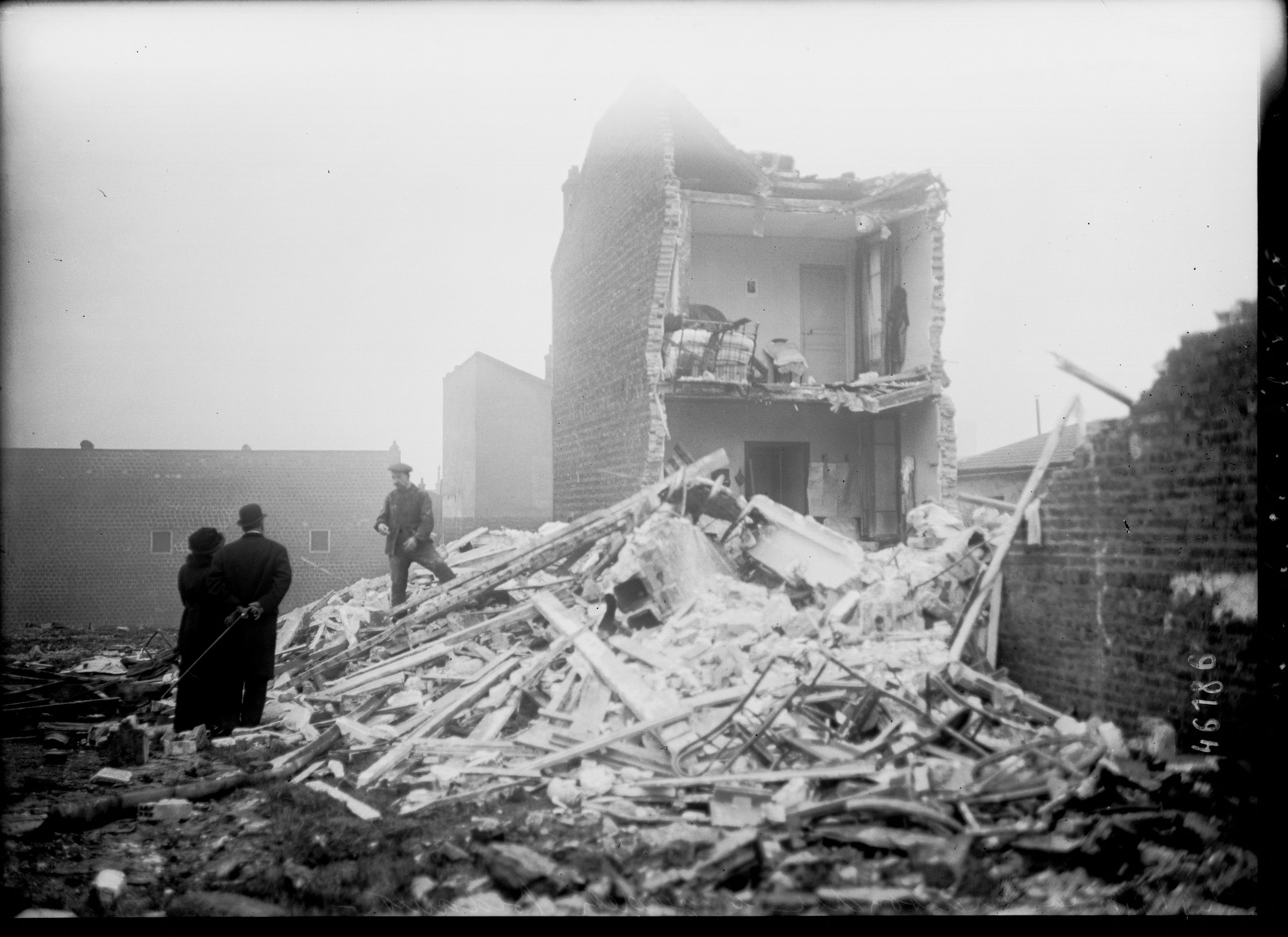 Paris bombing by German army in 1916. Damage at 34 rue du Borrégo, 20th arrondissement.